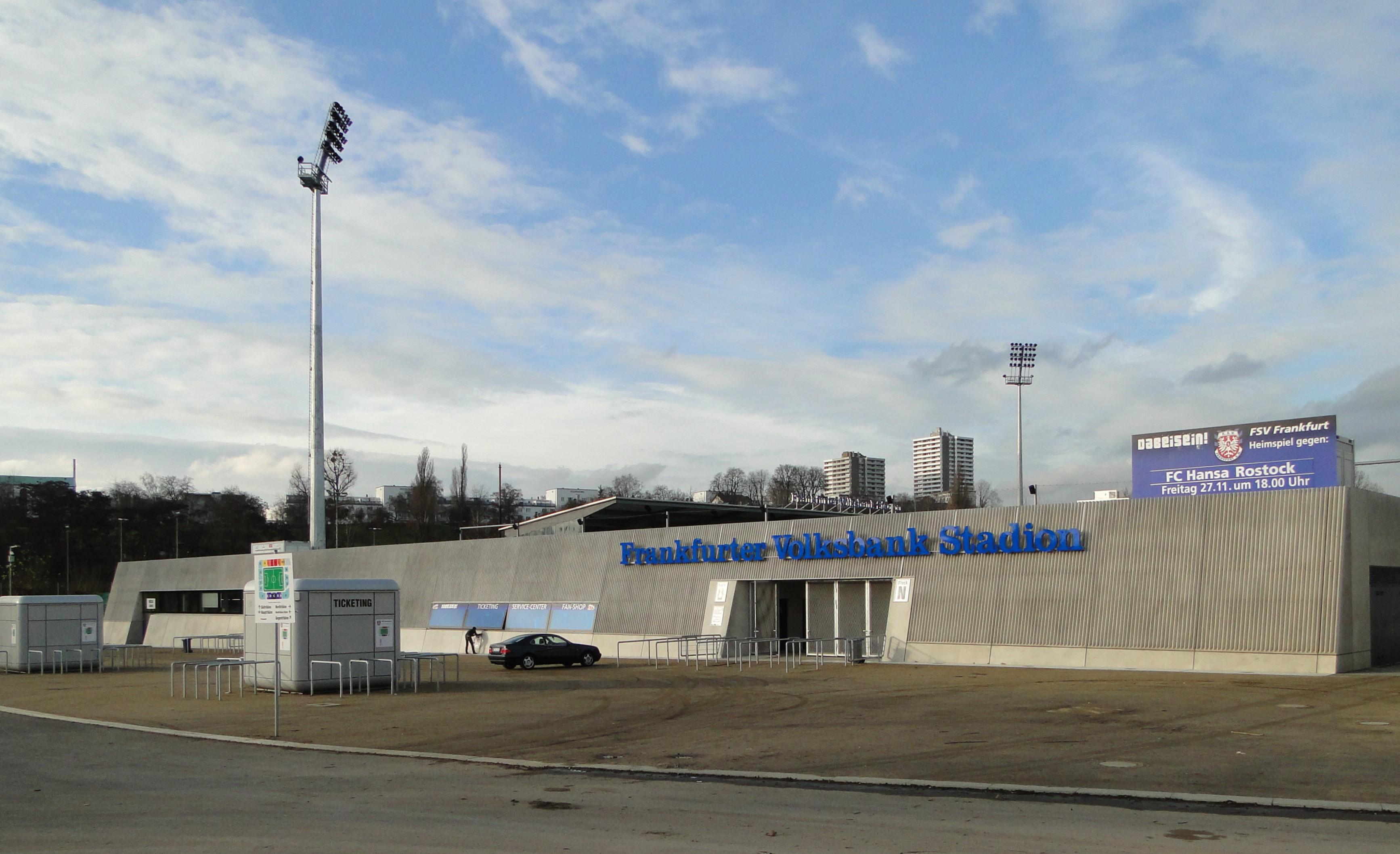 The "Volksbank Stadion" at "Bornheimer Hang" in Frankfurt am Main - Bornheim.